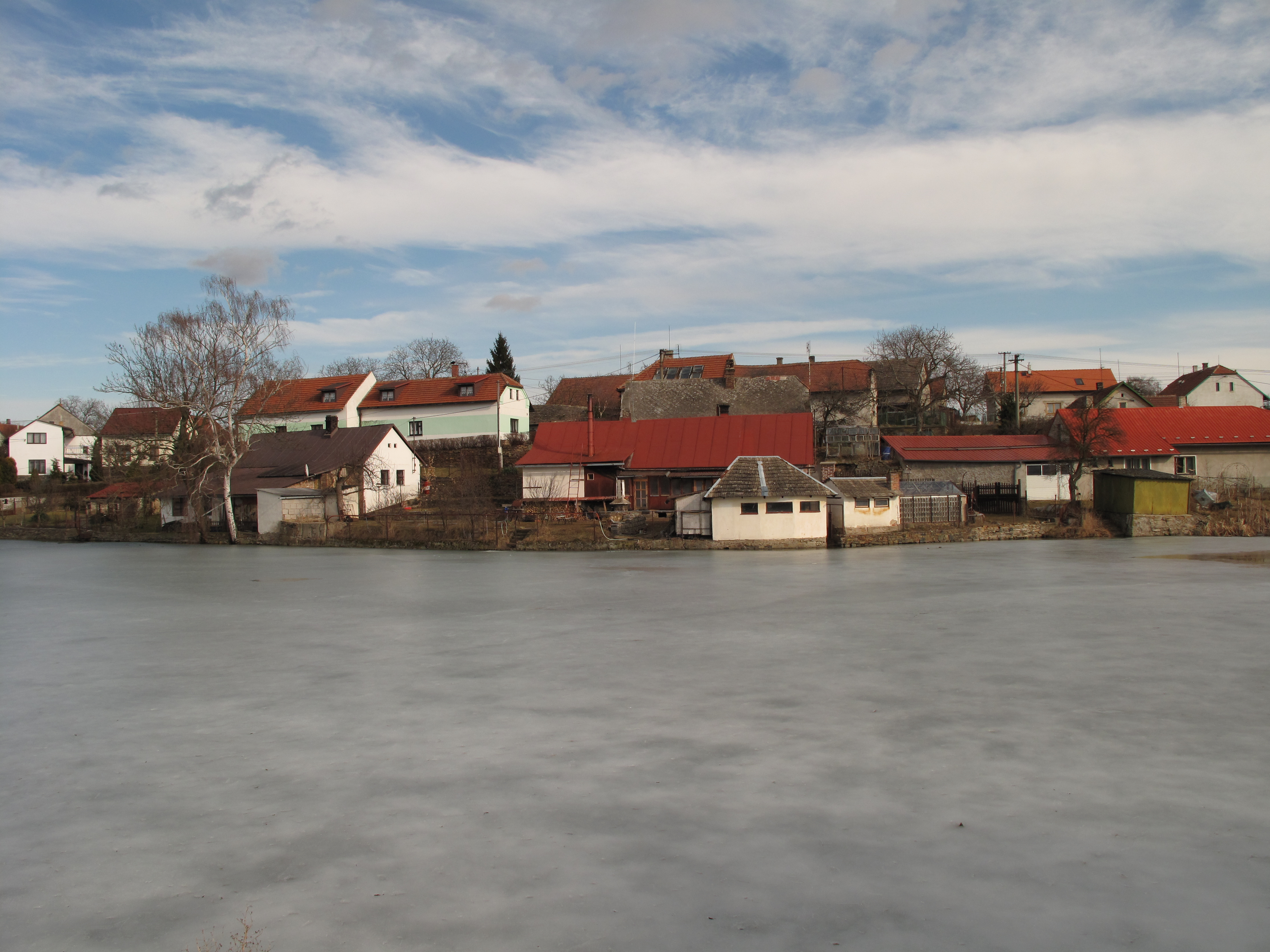 Pond and Bořetice village, Červené Pečky market town, Kolín District, Czech Republic. Project: Vodstvo